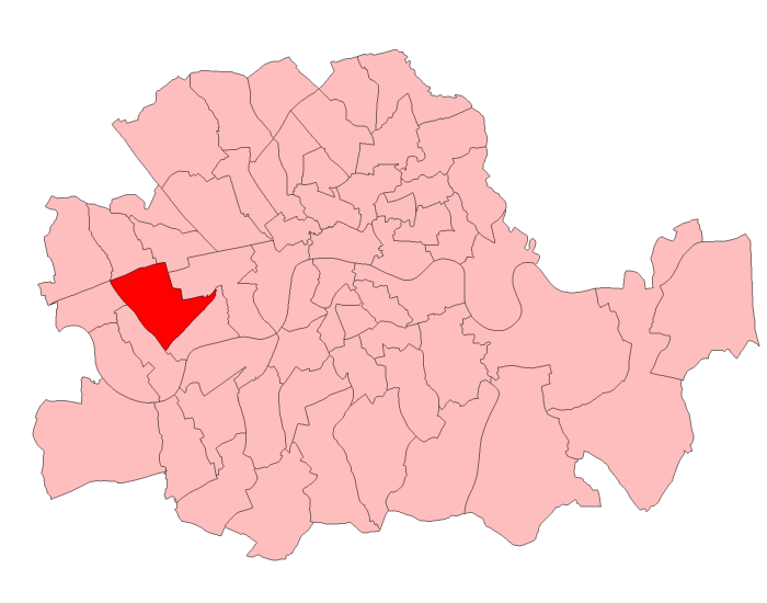 A map of Kensington South constituency within the London County Council area, as it existed from 1918 to 1949.